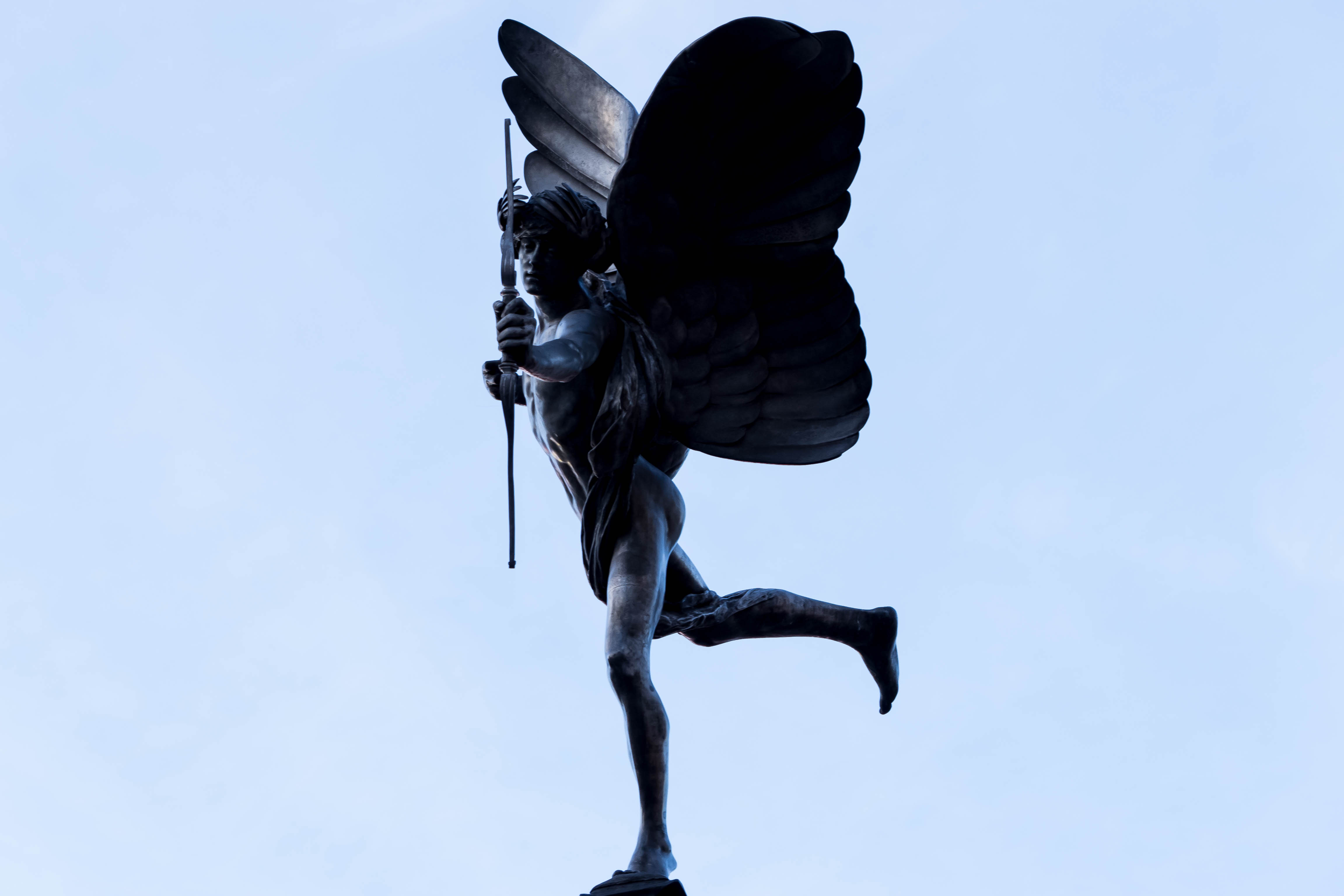 Shaftesbury Memorial Fountain Wikidata has entry Q17510112 with data related to this item.